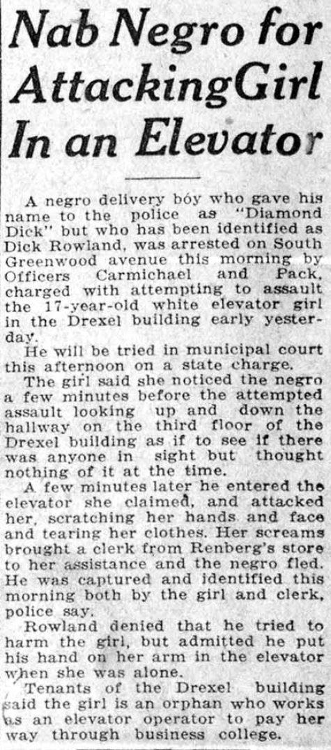 Newspaper clipping from the Tulsa Tribune.